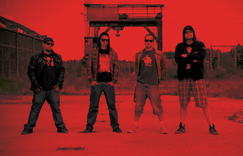 Oerjgrinder-Bandpicture